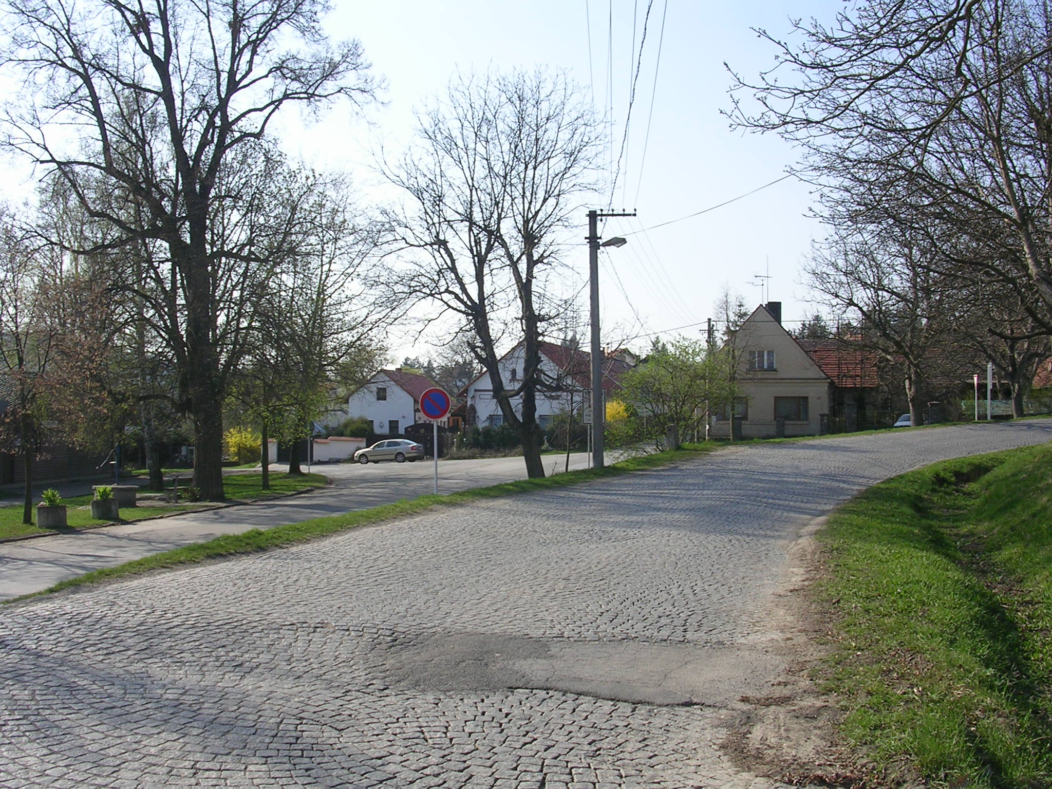 Hradištko, Central Bohemian Region, the Czech Republic.